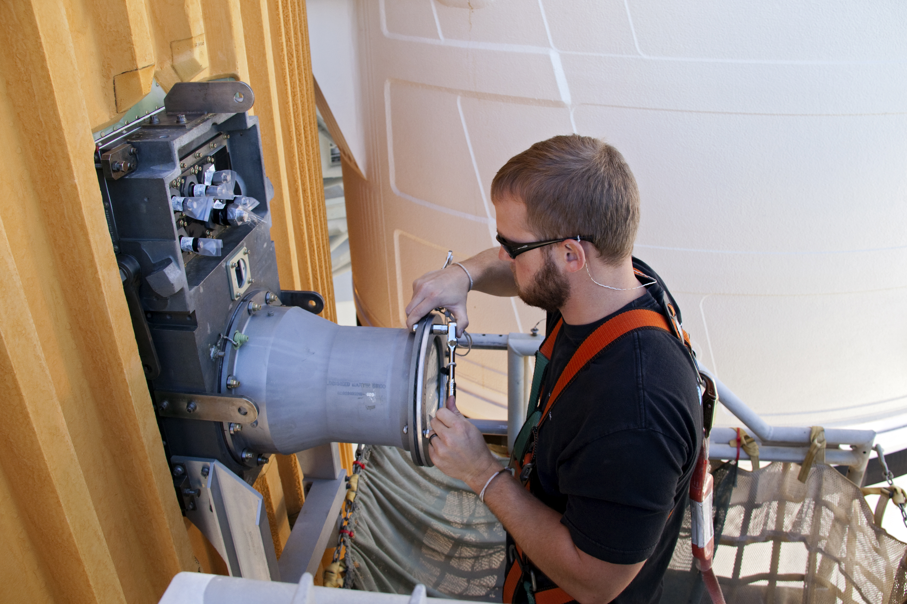 On Launch Pad 39A at NASA's Kennedy Space Center in Florida, a worker begins to remove the ground umbilical carrier plate's (GUCP) 7-inch quick disconnect. A hydrogen gas leak at that location on the external fuel tank during tanking for space shuttle Discovery's STS-133 mission to the International Space Station caused the launch attempt to be scrubbed Nov. 5. The GUCP will be examined to determine the cause of the hydrogen leak and then repaired. The GUCP is the overboard vent to the pad and the flame stack where the vented hydrogen is burned off. Discovery's next launch attempt is no earlier than Nov. 30 at 4:02 a.m. EST